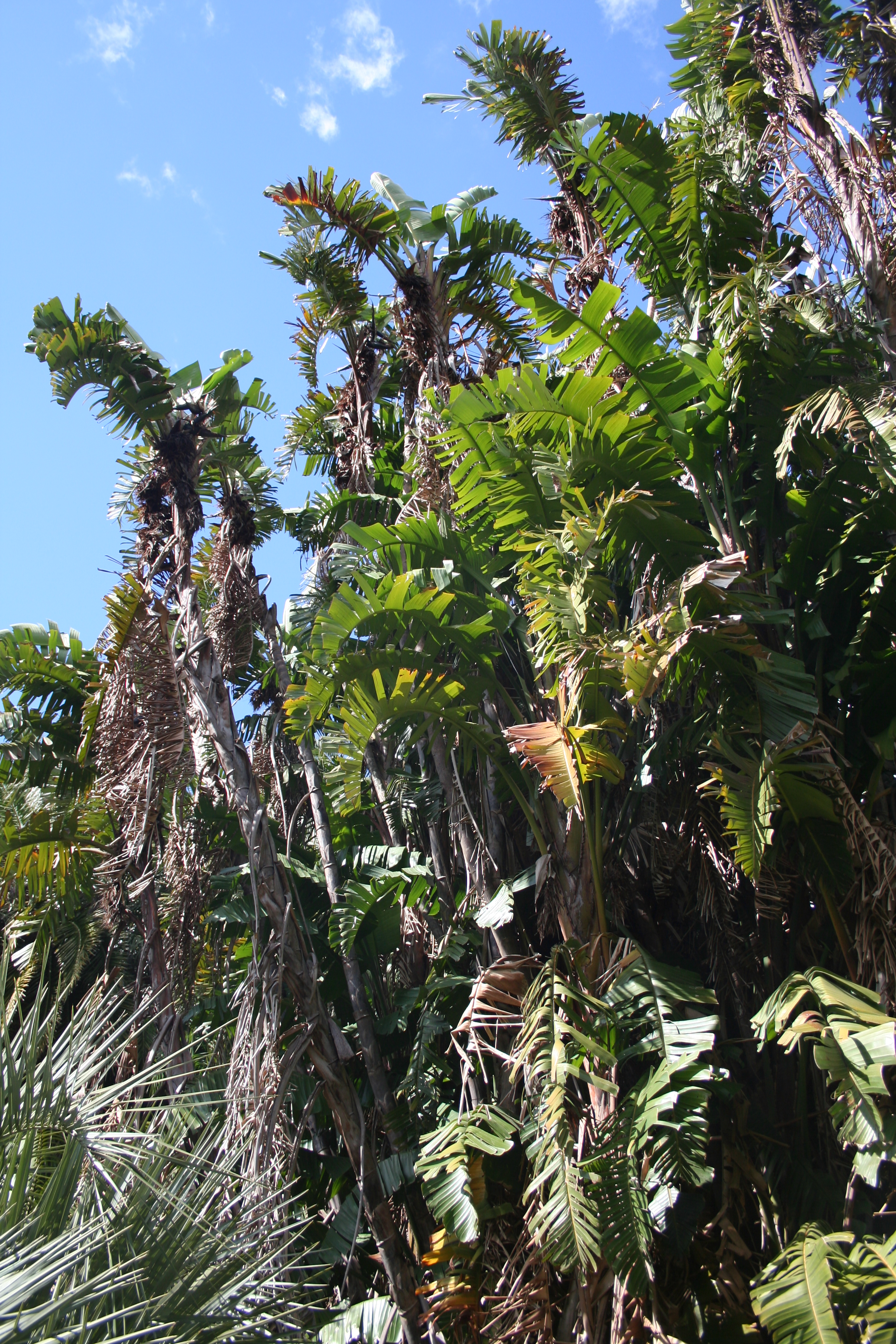 Strelitzia alba, Stellenbosch Botanical Garden, South Africa